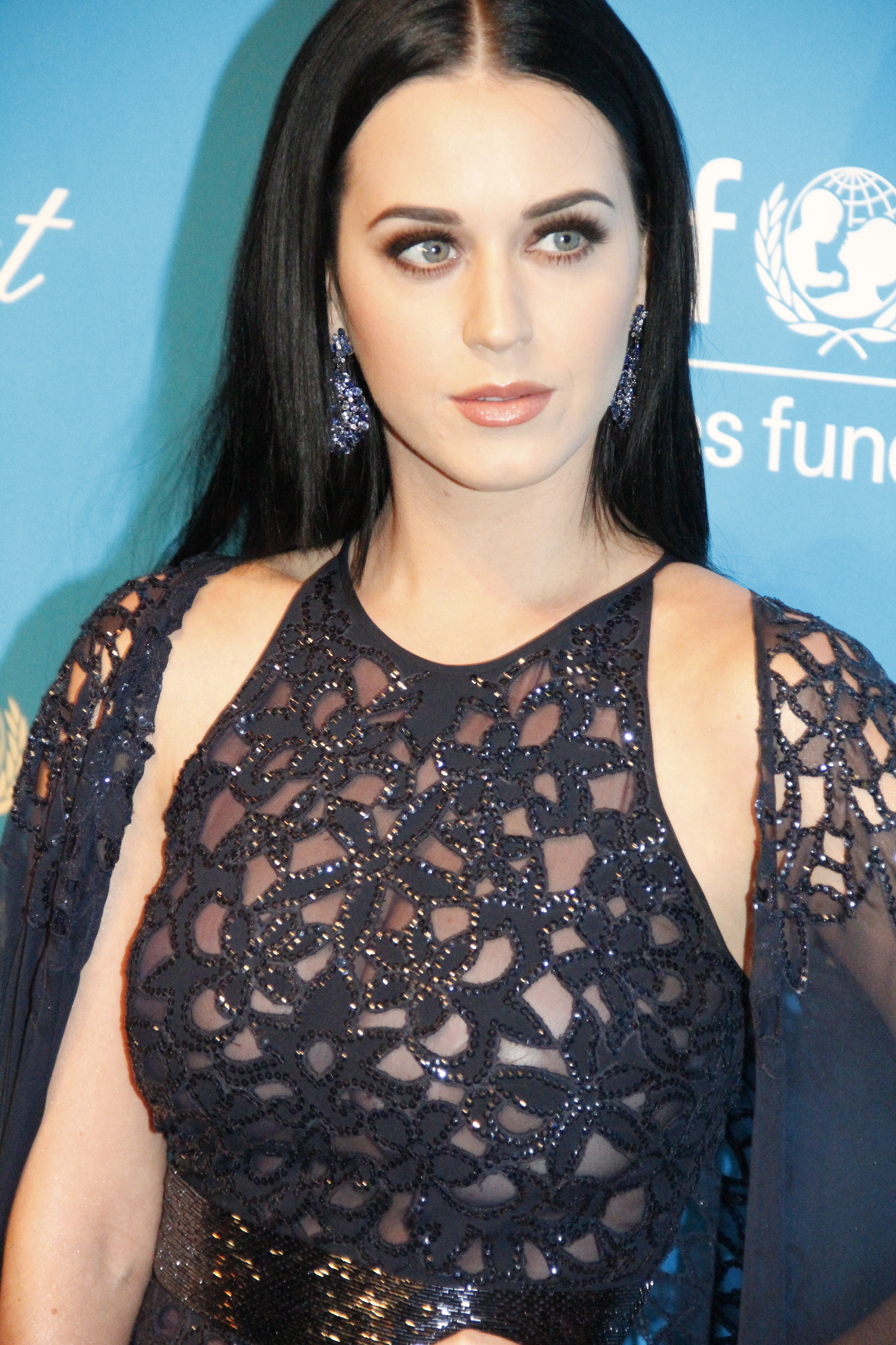 Katy Perry at the UNICEF Snowflake Ball 2012 in New York City.